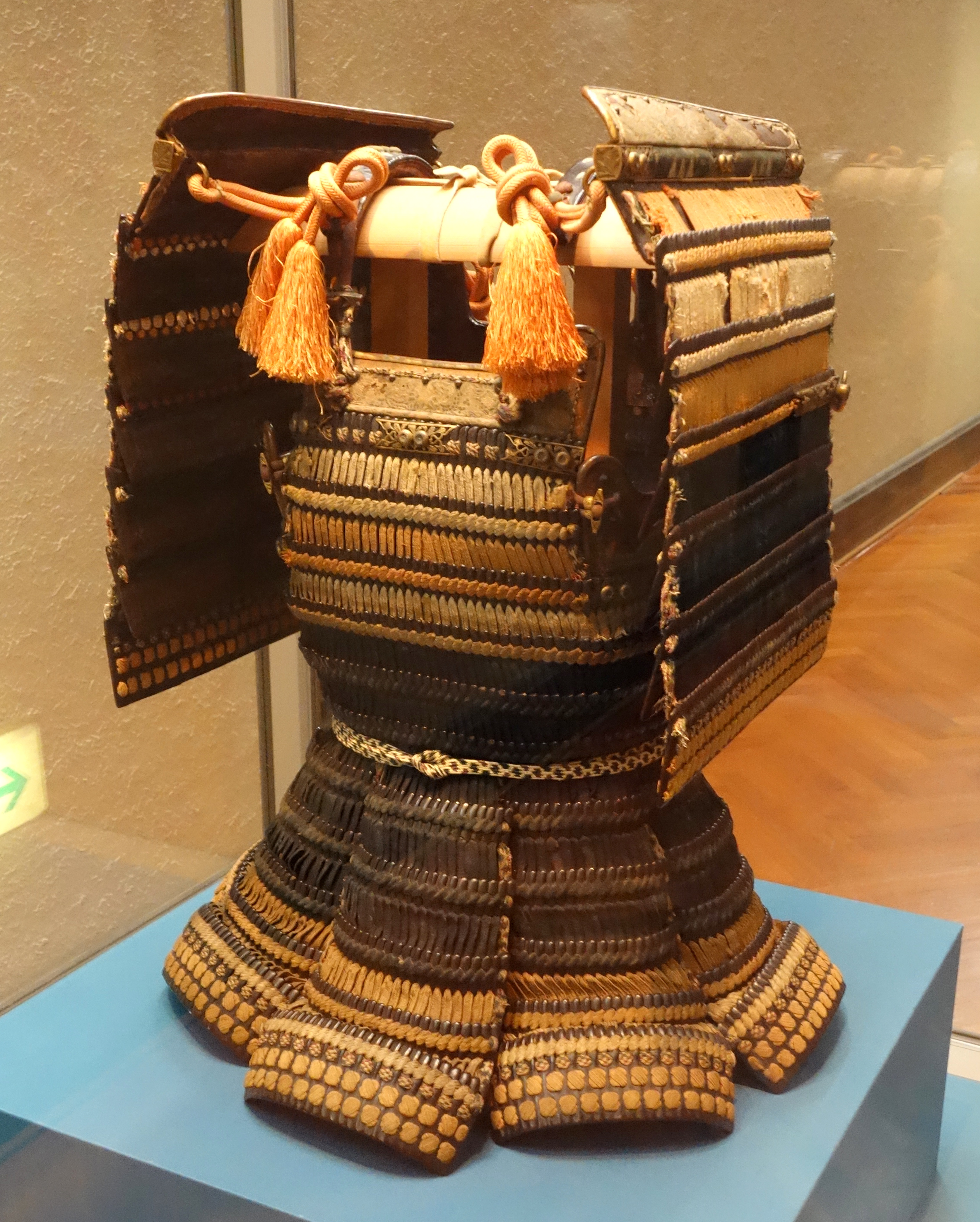 Exhibit in the Tokyo National Museum, Tokyo, Japan. This artwork is old enough so that it is in the public domain.